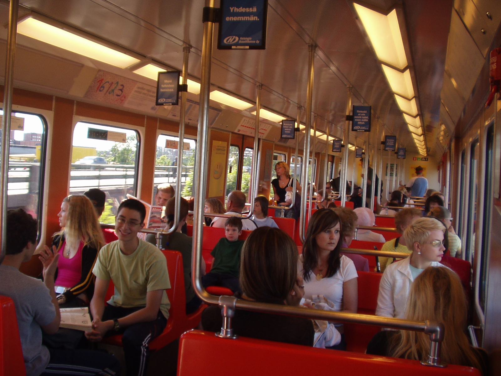 Interior of a Helsinki metro train